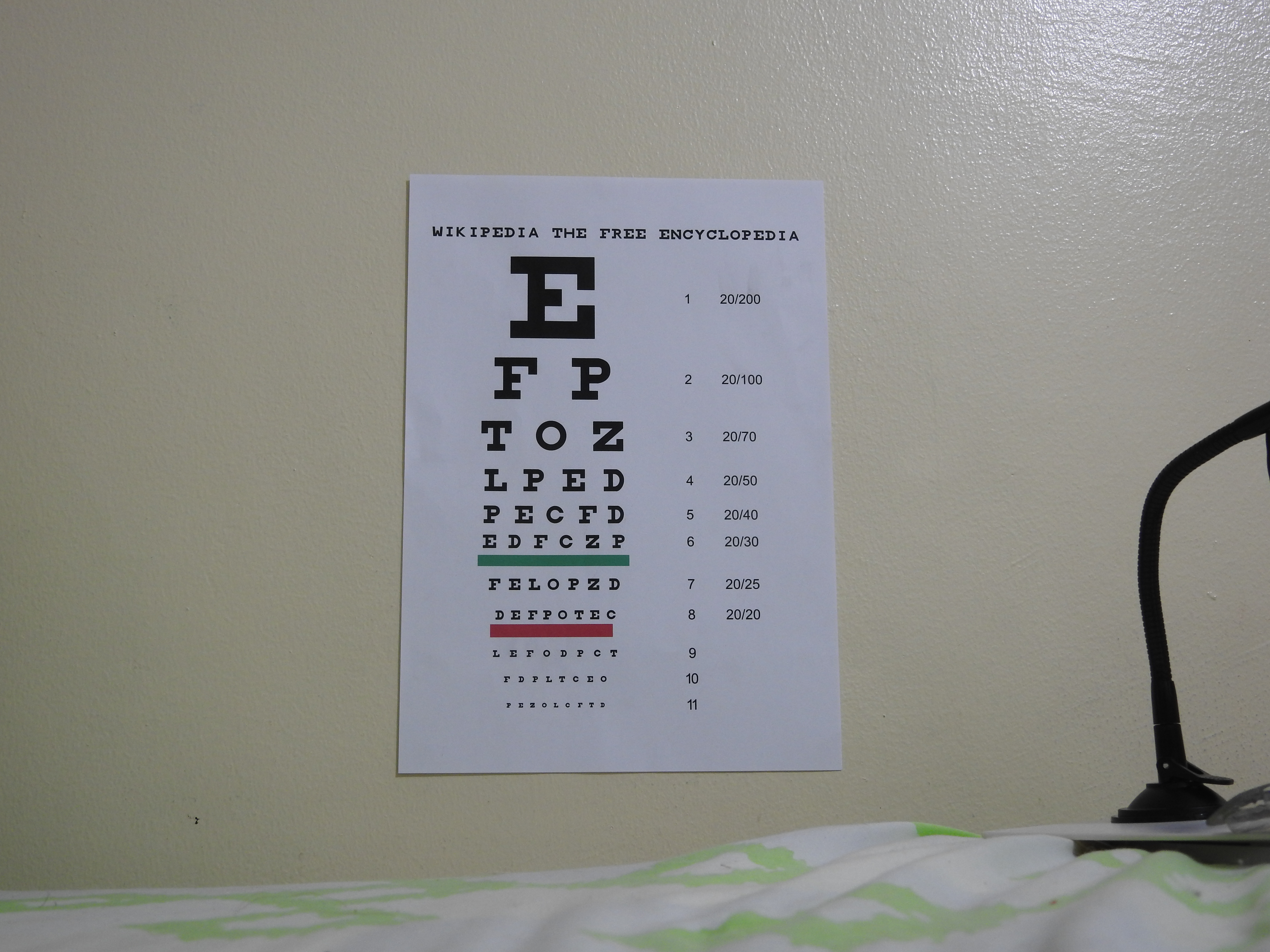 An eye chart seen without a blur. The chart is a print out of File:Snellen chart.svg, slightly edited. This file is meant to be used with File:Blurry eyechart.jpg and/or File:Eye chart through pinhole glasses.jpg.